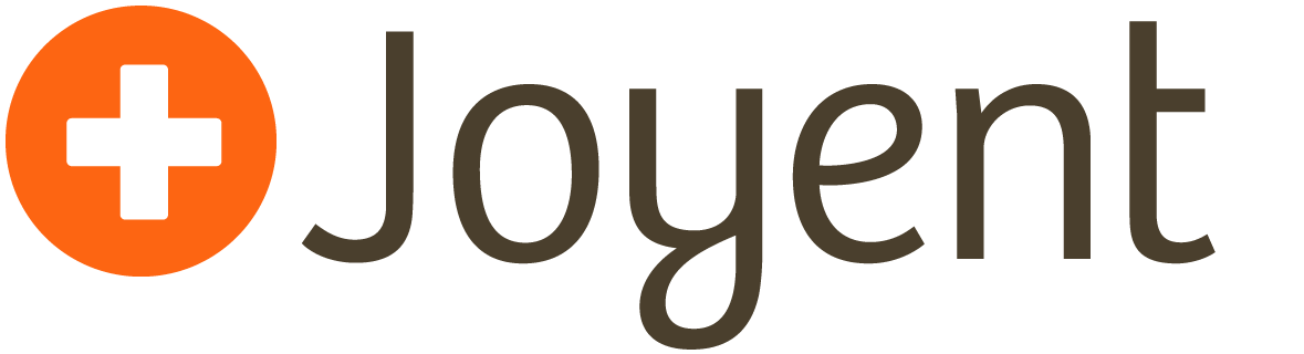 This is the Joylent logo.